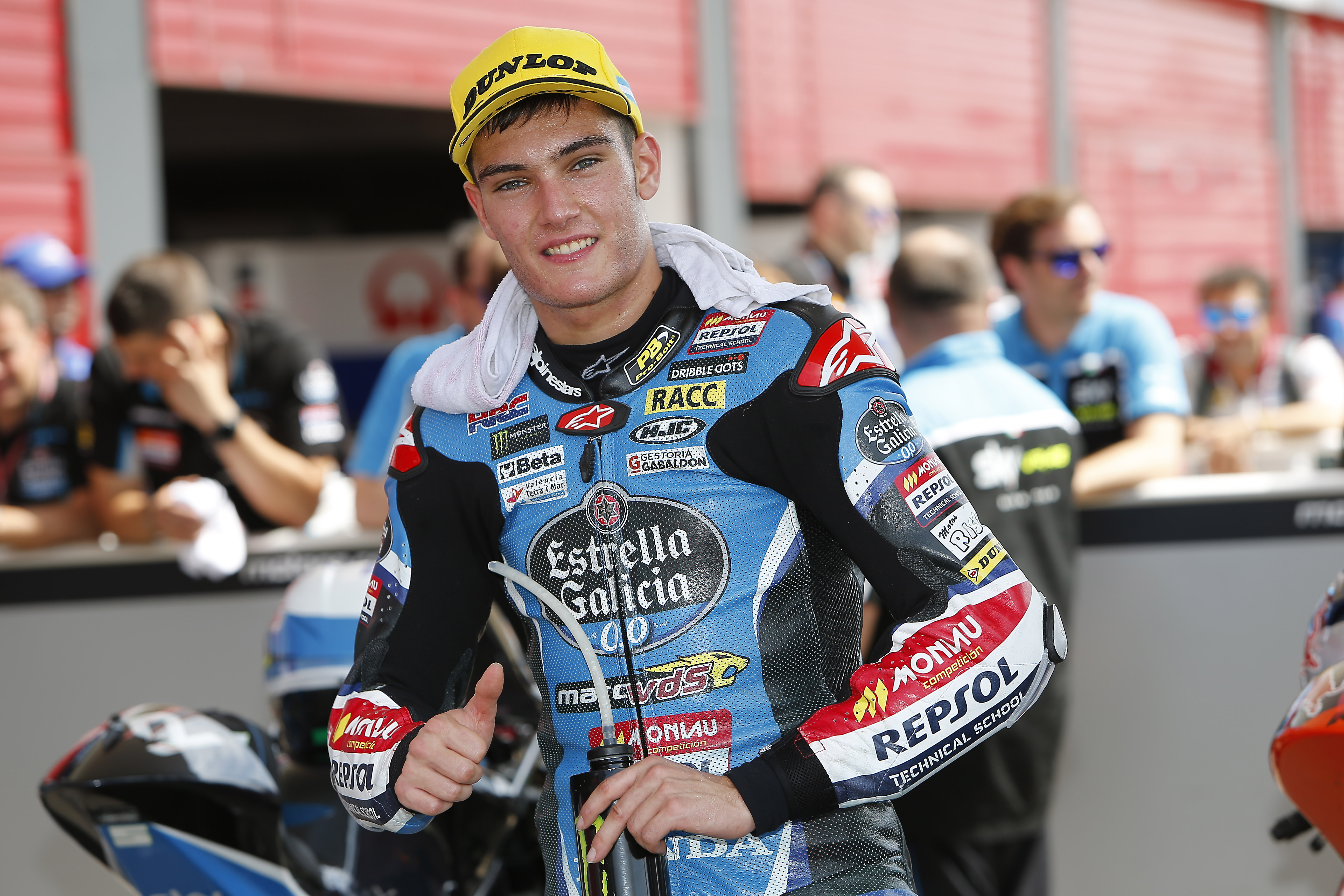 Jorge Navarro during 2016 Argentina motorcycle Grand Prix